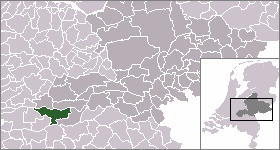 Locator map of Dutch municipalities in Gelderland (LocatieZaltbommel.png)